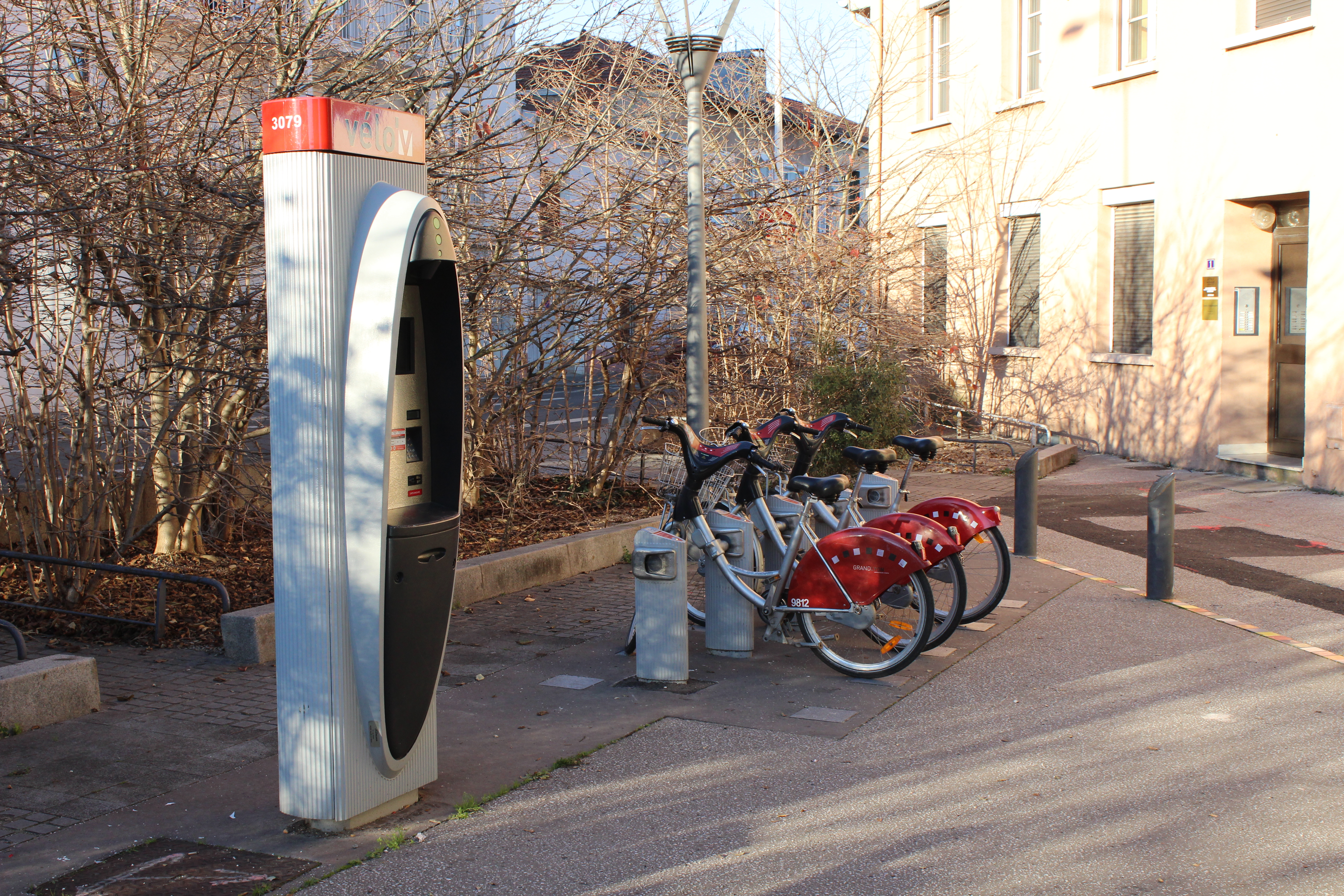 Corner of an arborsquare in winter, in the foreground parking meter and behind black chrome and red bikes waiting in their arches.